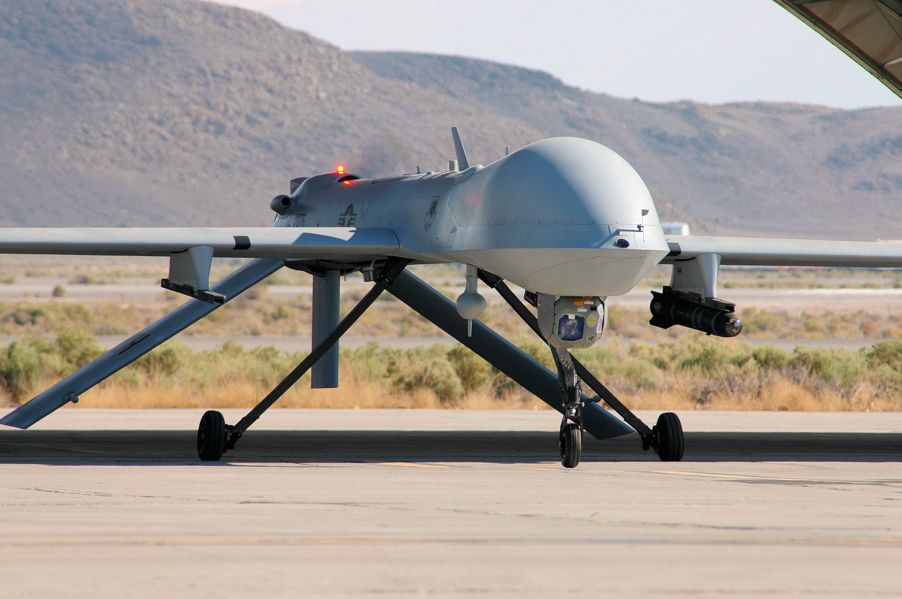 CREECH AFB, Nev. -- An MQ-1B Predator taxis at Creech AFB, Nev. June 25, 2008. The 15th Reconnaissance Squadron is one of the first armed UAS squadrons, providing combatant commanders with persistent ISR, full motion video, and precision weapons employment. (Photo by Steve Huckvale)